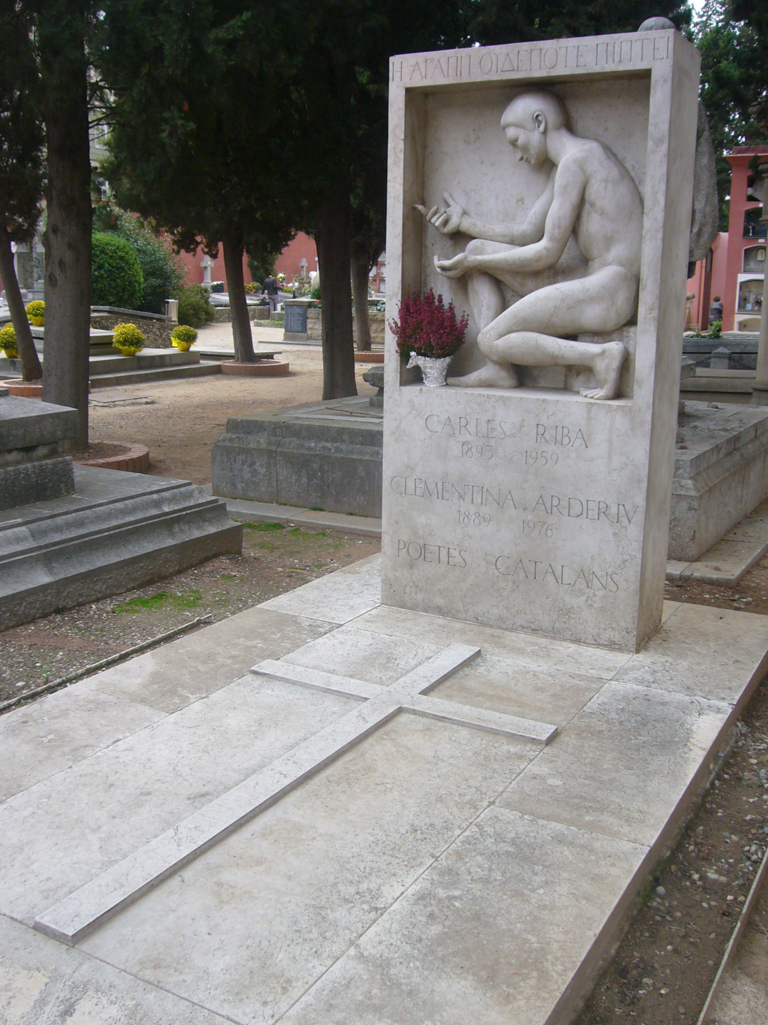 Cementiri de Sarrià - tomba dels poetes Carles Riba i Clementina Arderiu